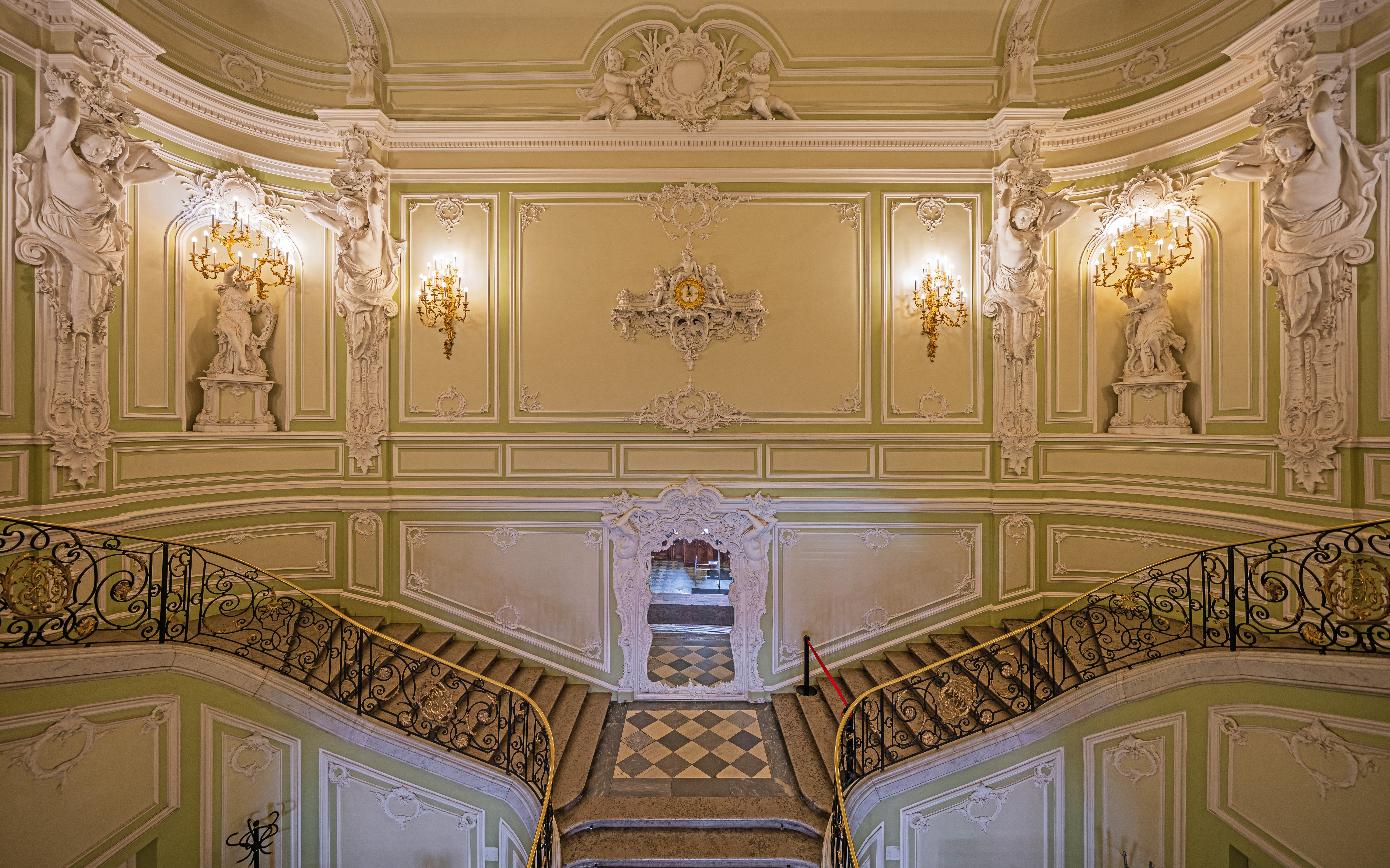 Interiors of Beloselsky-Belozersky Palace in Saint Petersburg, Russia